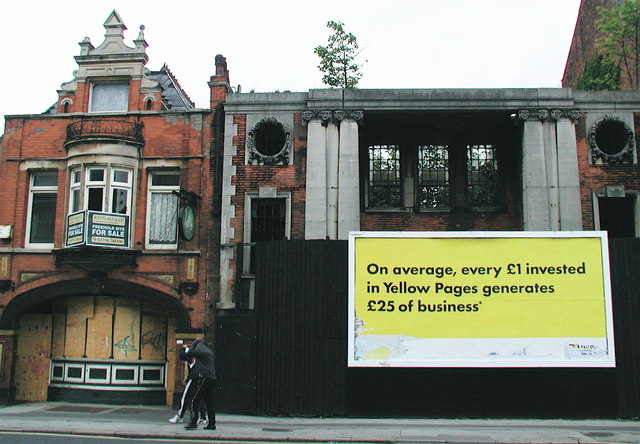 Beverley Road, Hull, East Riding of Yorkshire, England."Hull is rapidly becoming an important and diverse centre of enterprise and investment. A thriving port, improving transport links and a growing economy make Hull an attractive location for businesses" [quote from Hull City Council's website ]. The picture shows the Swan pub on Beverley Road and next to it the façade of the National Film Theatre, which I'm told has remained in this state since it was severely damaged by bombs in WW2. The two people in the picture apparently didn't wish to comment.